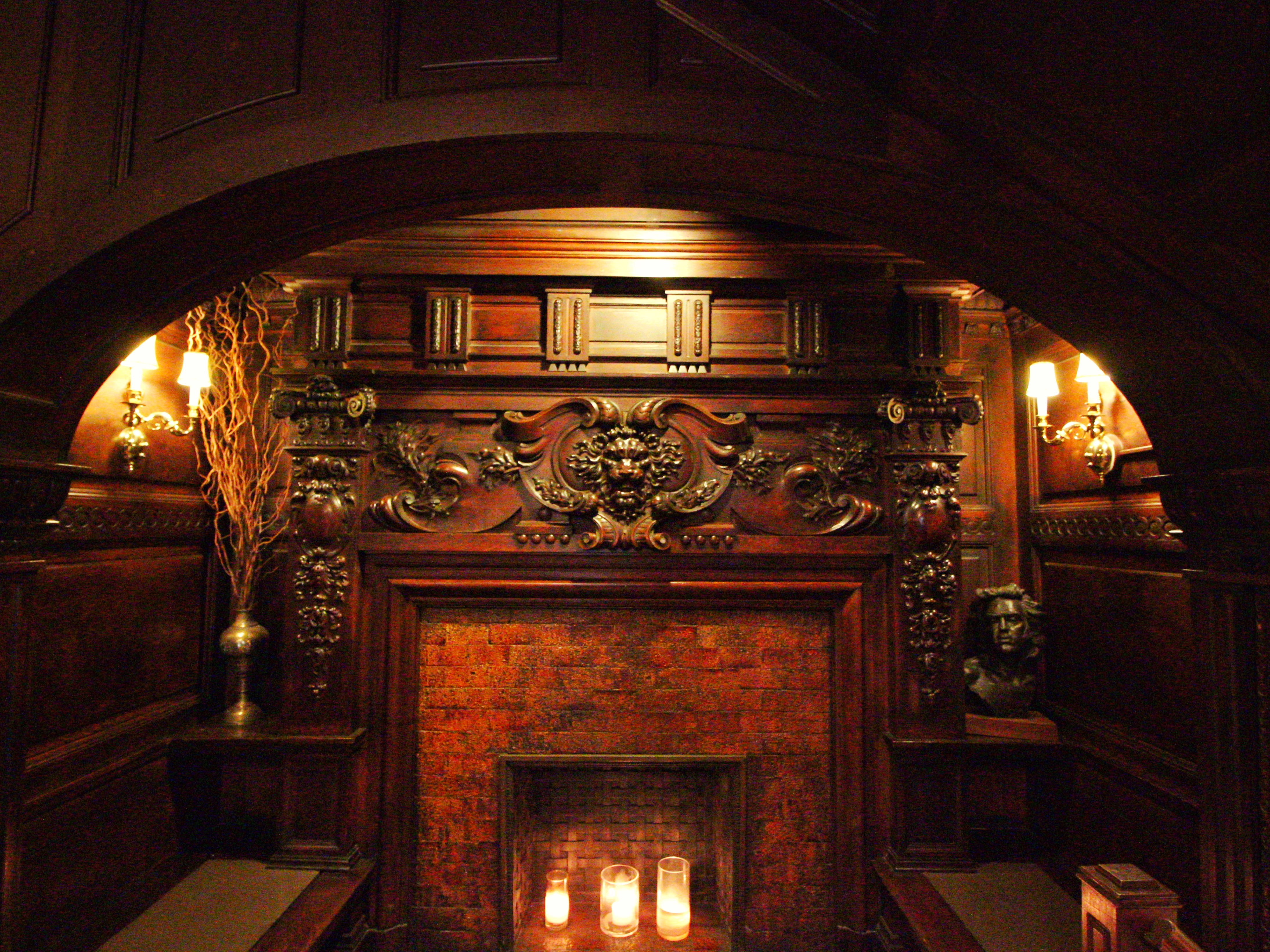 Site: Estonian House